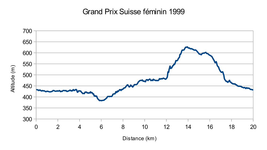 Profil of Grand Prix Suisse féminin 1999.